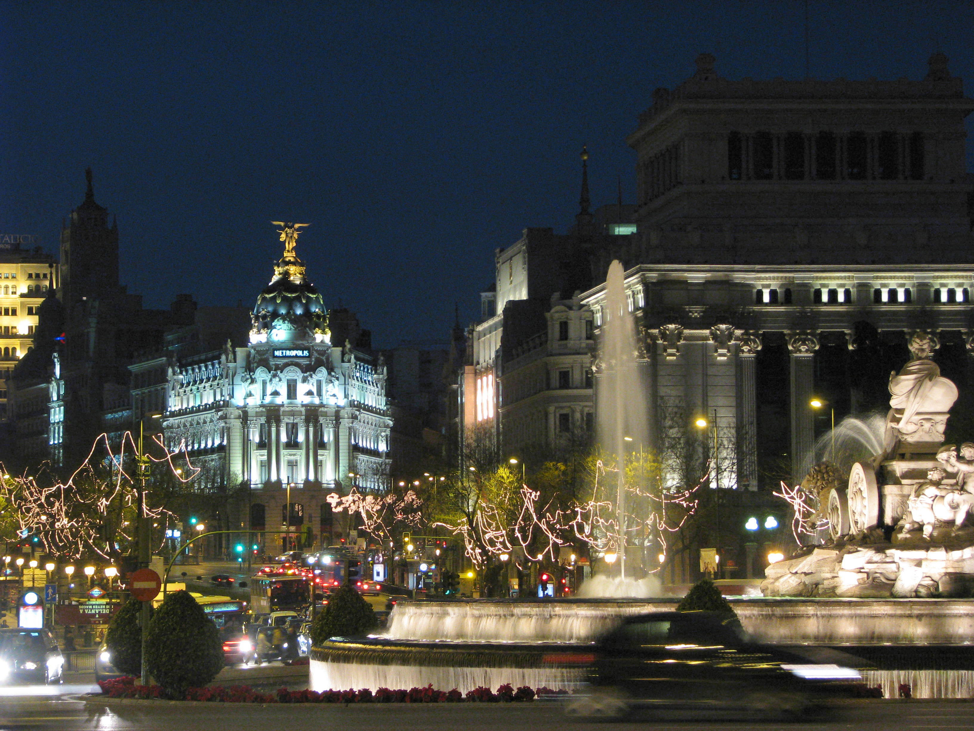 Night view from the Plaza de Cibeles (square) in Madrid (Spain), with Christmas lights. Foreground: Fountain of Cybele. Background left: Metropolis Building.